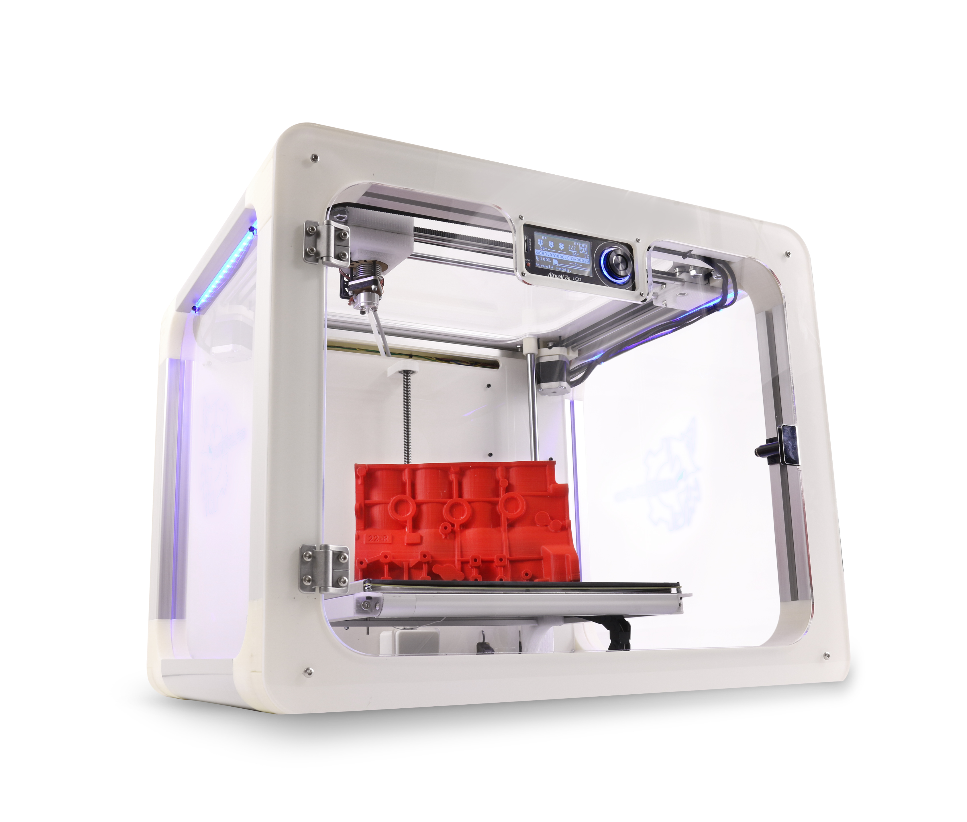 The AXIOM is designed to be a professional-grade machine with all of the modern features that make a 3D printer easy to use, while producing quality results, including: auto-leveling, an “easy feed” filament system, an enclosed build area, and what the company describes as an “end-user replaceable cassette system (ERC)”. While the first features are meant to ensure repeatability and trouble-free printing, the ERC system allows users to upgrade or change extruders. With the ERC, the extruder and its accompanying components are contained within a cassette-like structure that can be removed and replaced with ease.